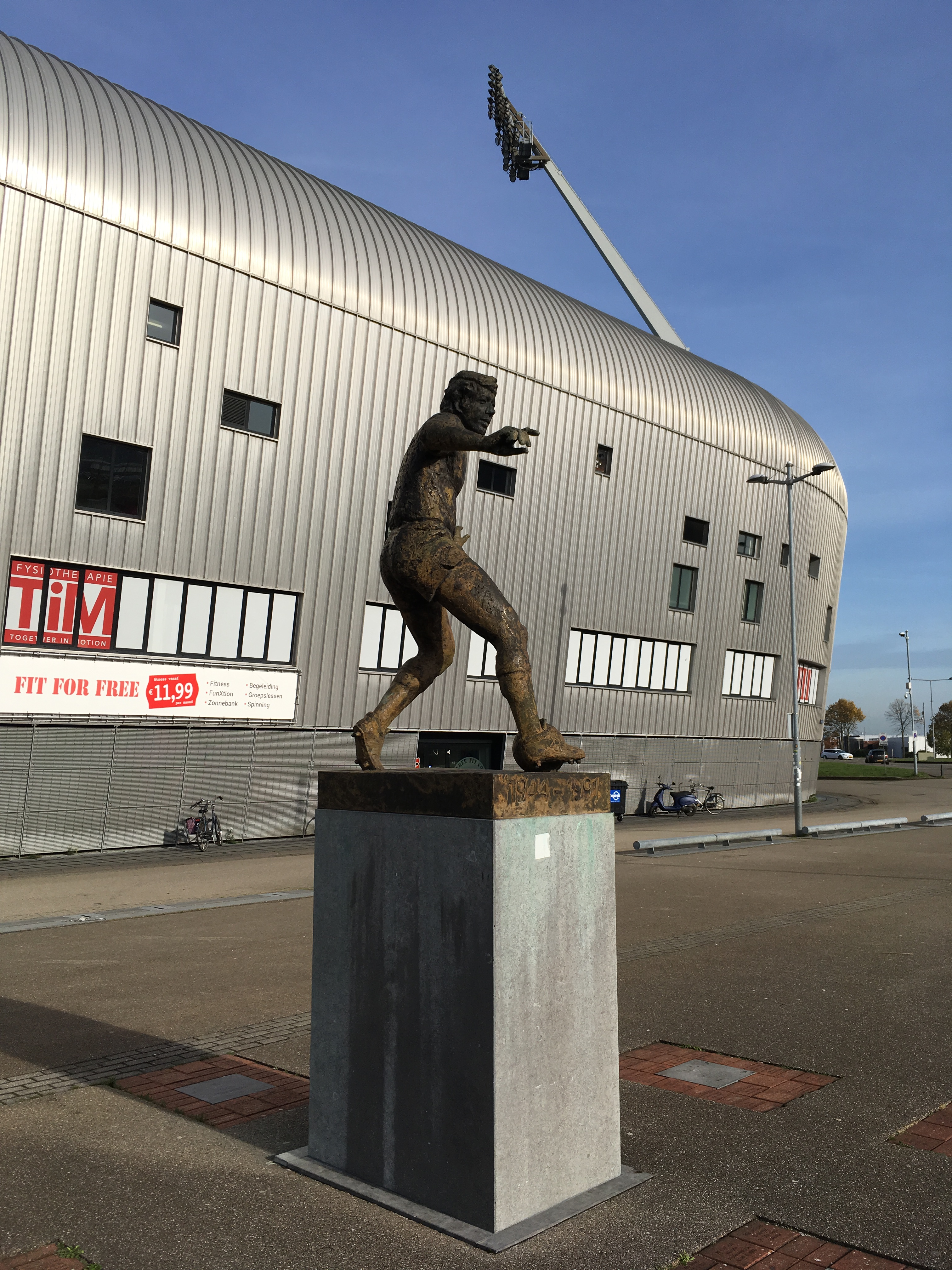 Multi-use stadium in The Hague, Netherlands, designed by Zwarts & Jansma Architects, completed in 2007. Home to soccer club ADO Den Haag. The Aad Mansveld memorial statue